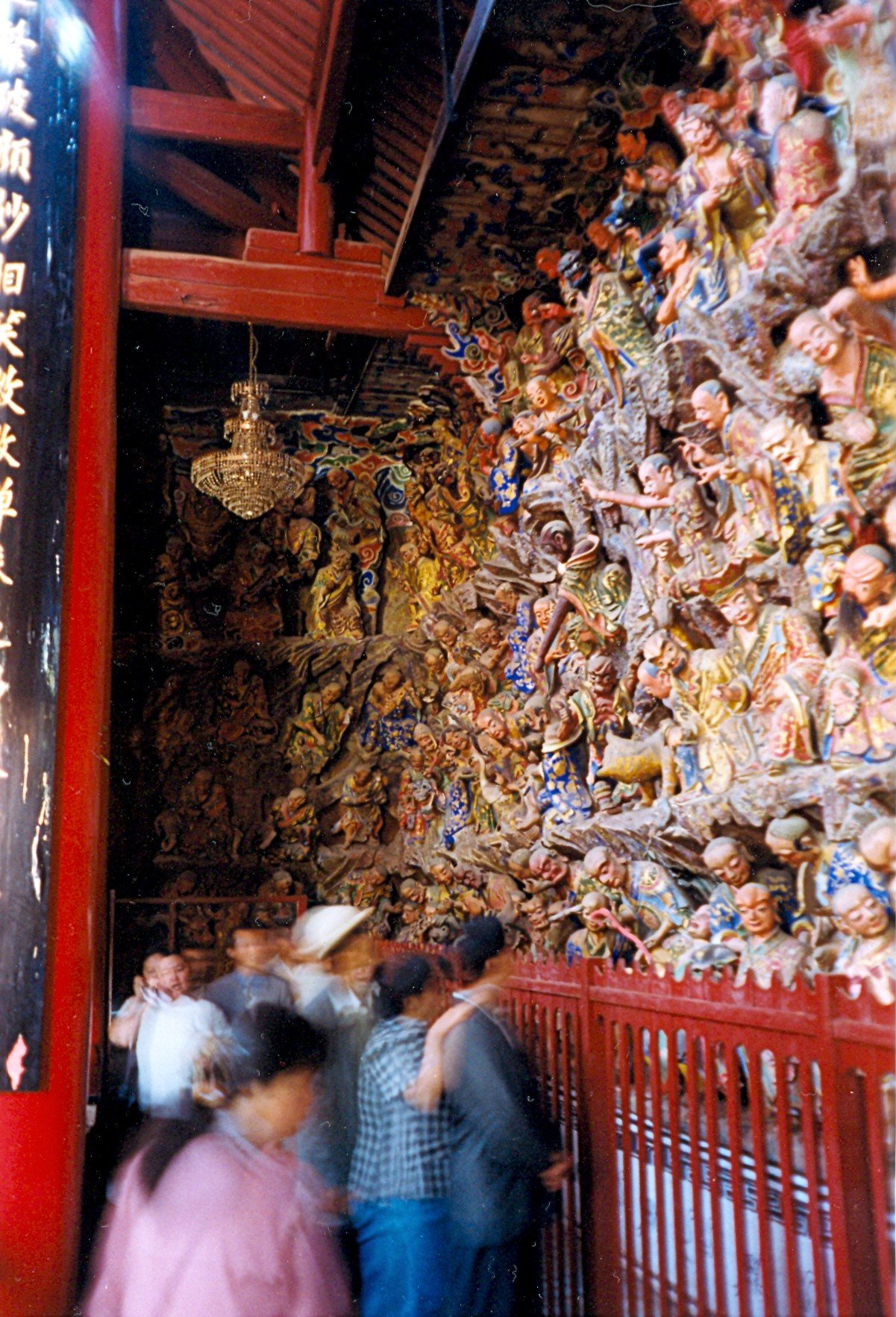 Buddhist arhat figurines in the Huating Temple in the Western Hills near Kunming, Yunnan, China.